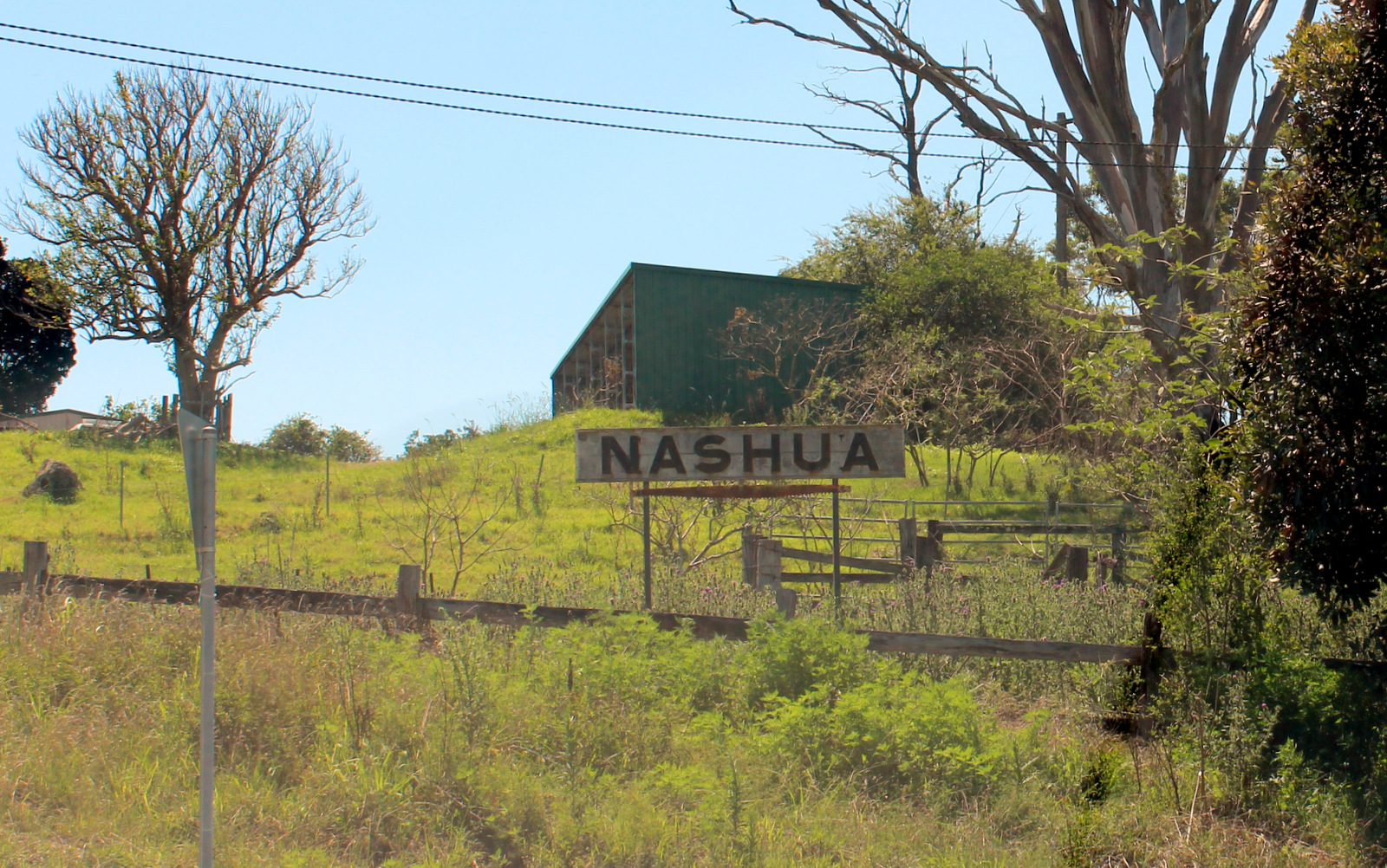 Nashua NSW